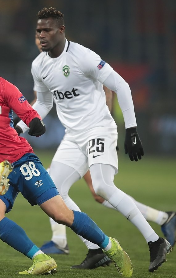 Stéphane Badji with PFC Ludogorets Razgrad in an Europa League game against PFC CSKA Moscow.